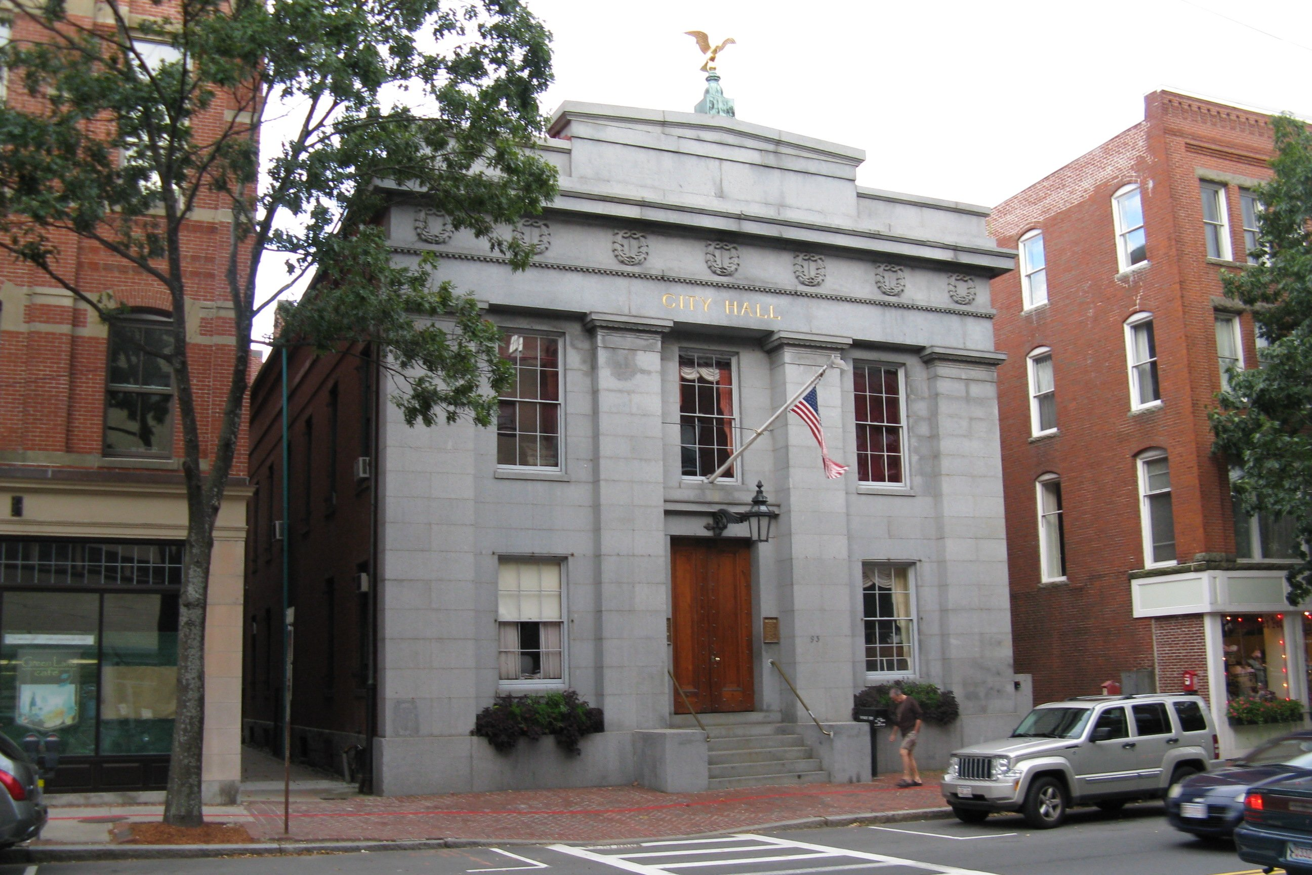 Historic City Hall, Salem Massachusetts